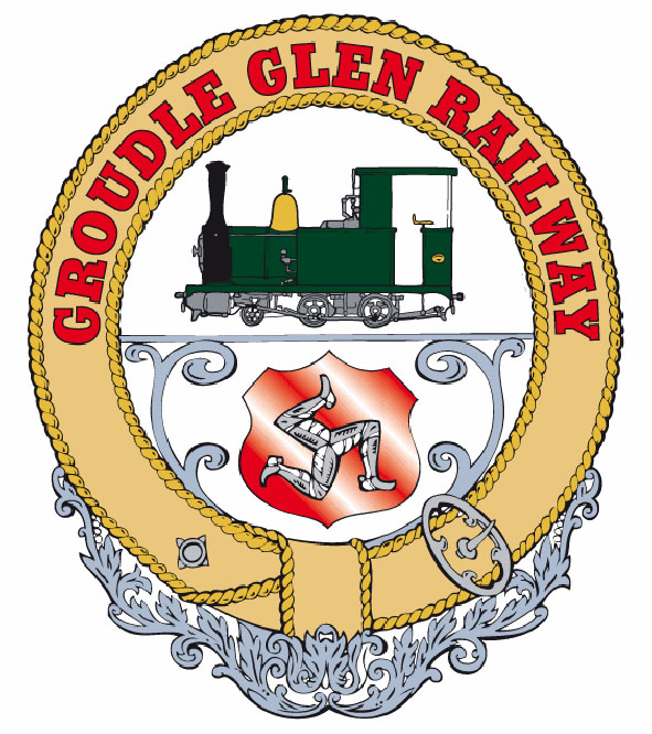 The crest for the restored Groudle Glen Railway